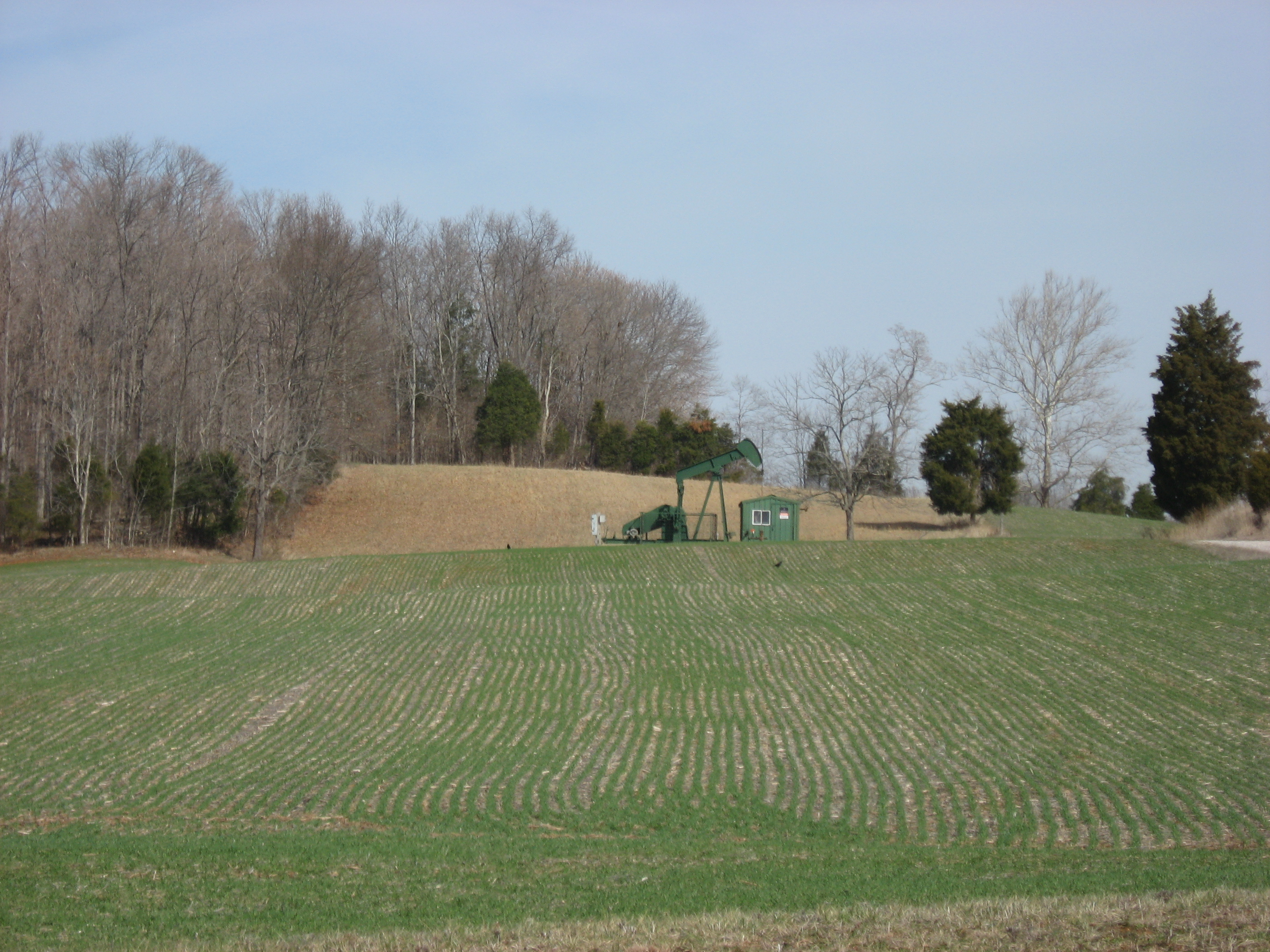 Fields and a pumpjack in northwestern Boone Township, Harrison County, Indiana, United States, seen from the intersection of Old Goshen and Tobacco Landing Roads.